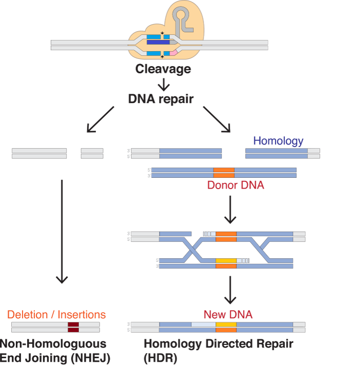 Colour-friendly reupload of User:Mariuswalter's image showing DNA Repair after CRISPR-Cas9 double strand break, adapted to be accessible to those with red-green colourblindness